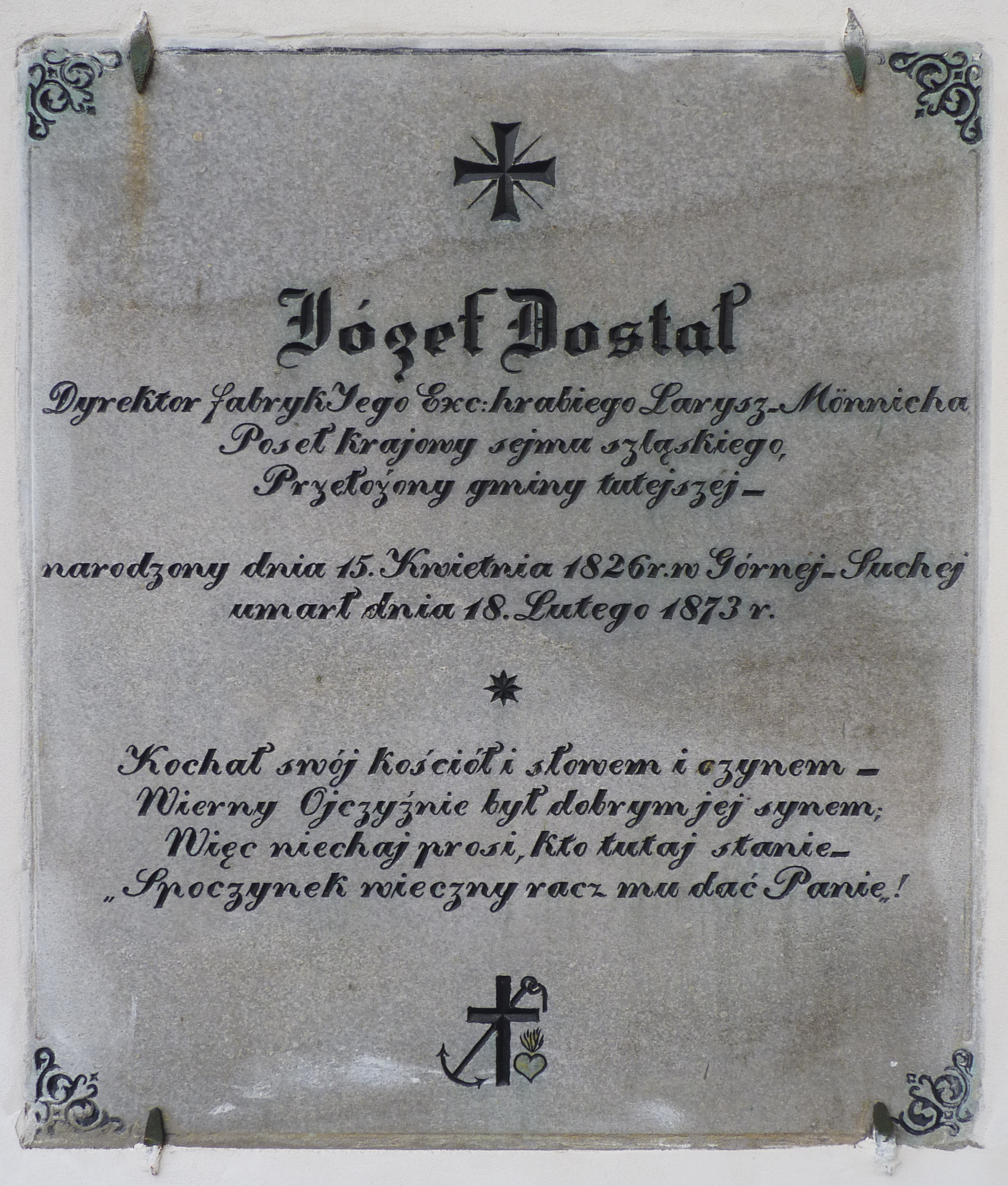 Horní Suchá (Sucha Górna). Karviná District, Moravian-Silesian Region, Czech Republic